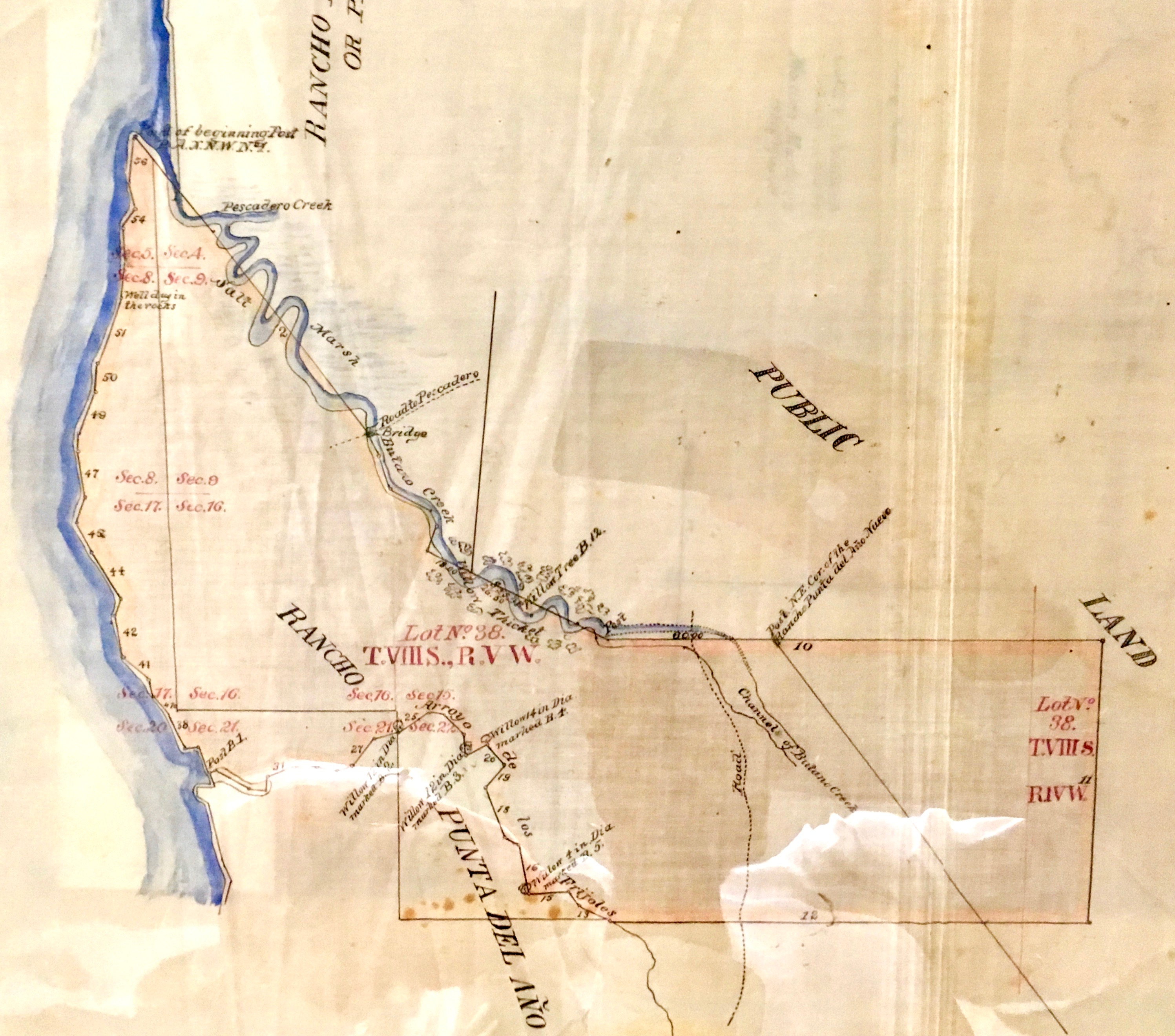 Document for the confirmation to Manuel Rodriguez.